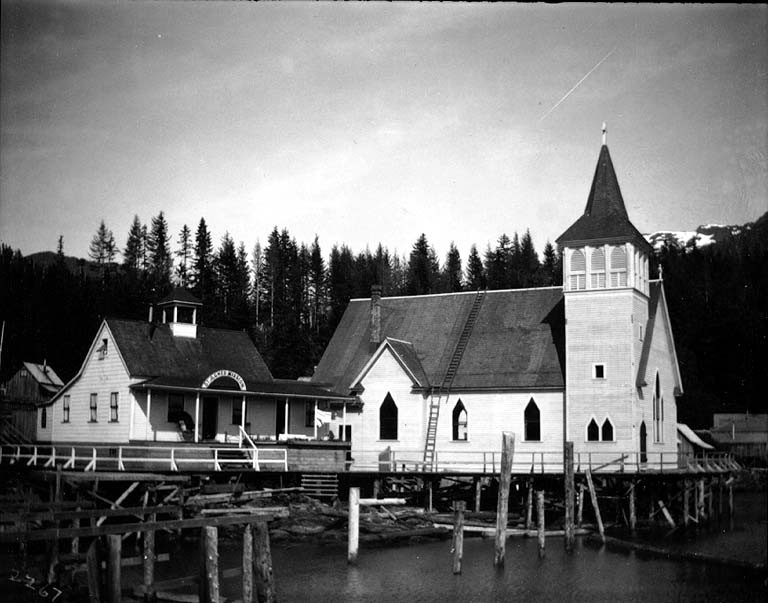 From John Cobb field notebook: St. John's Episcopal Church, Ketchikan. Hospital on the left. Aug. 1904 Subjects (LCTGM): Episcopal churches--Alaska--Ketchikan; Hospitals--Alaska--Ketchikan Subjects (LCSH): St. John's Episcopal Church (Ketchikan, Alaska); Anglican church buildings--Alaska--Ketchikan